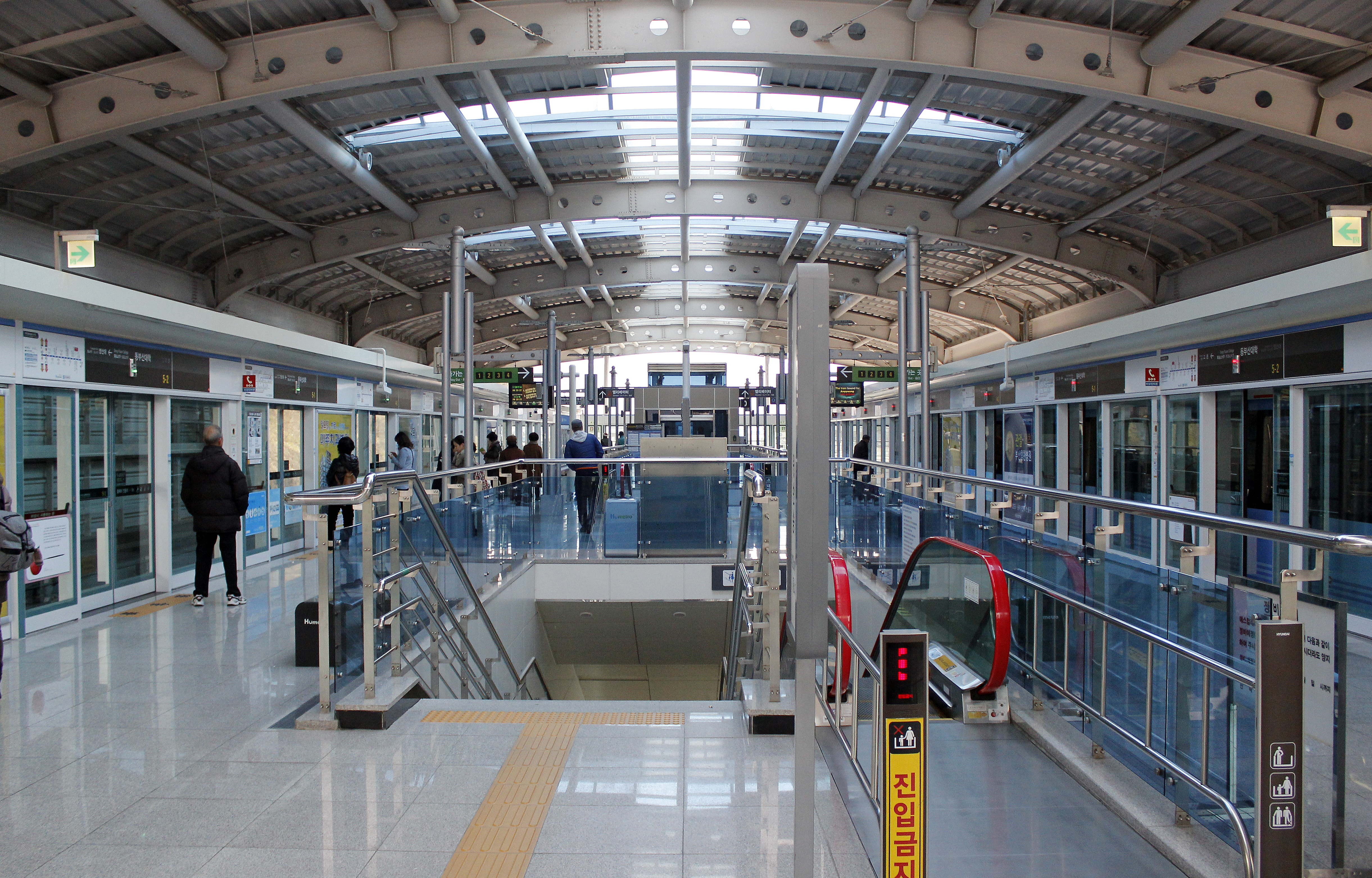 Dong-Pusan College Station Platform